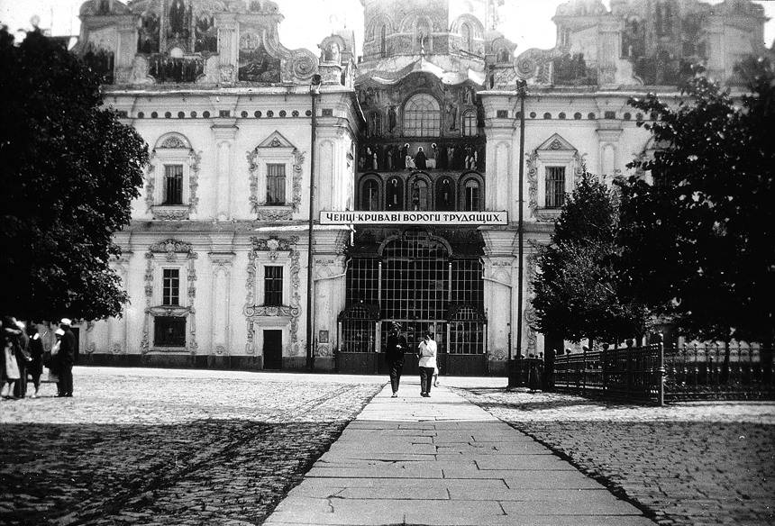 Soviet antireligious propaganda at the entrance to the Dormition Cathedral of the Kyivan Cave Monastery in Kyiv: "Monks - bloody enemies of the working class".